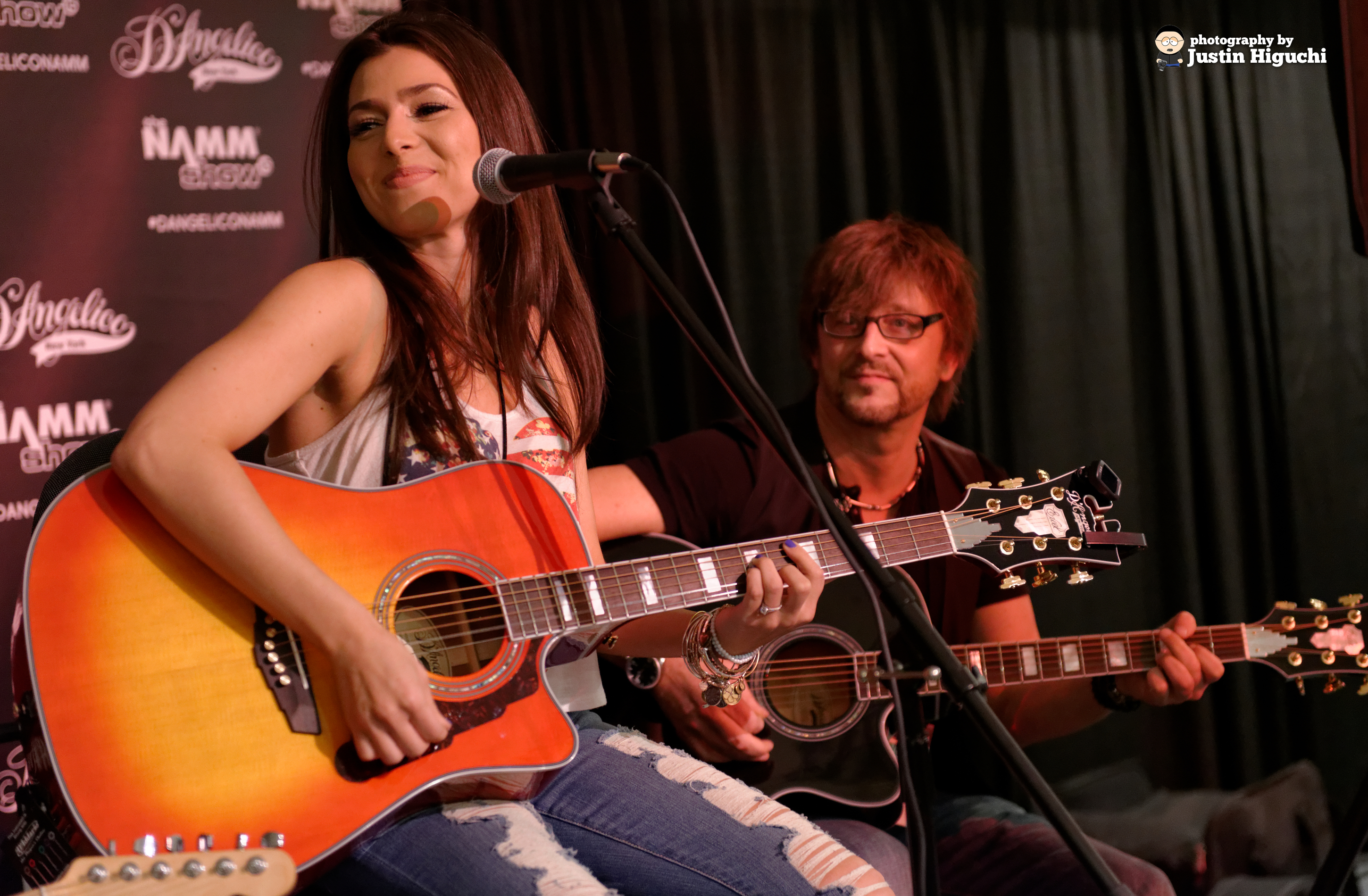 Jessica Lynn performing live in the D'Angelico Guitars showroom, at the Winter NAMM Show in Anaheim California on Friday January 23rd, 2015.